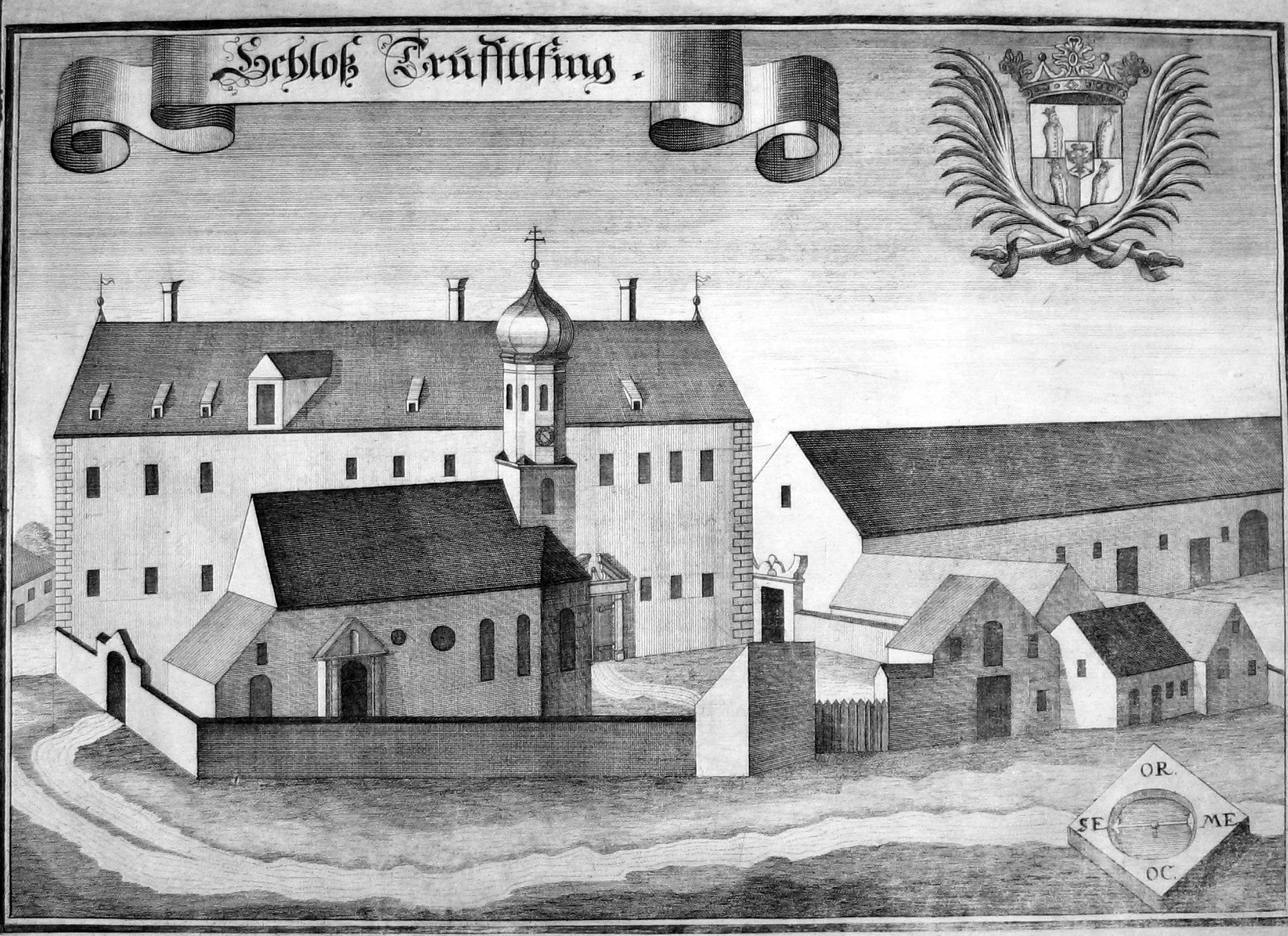 Triftlfing Castle in Bavaria